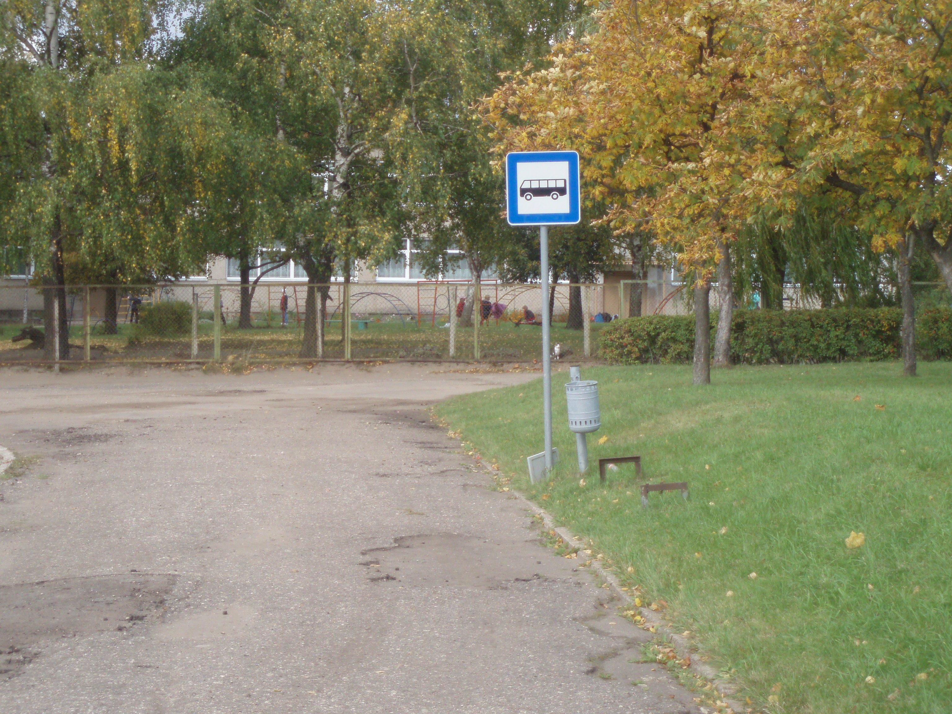 Bus stop "5. vidusskola" in Rēzekne, Latvia.